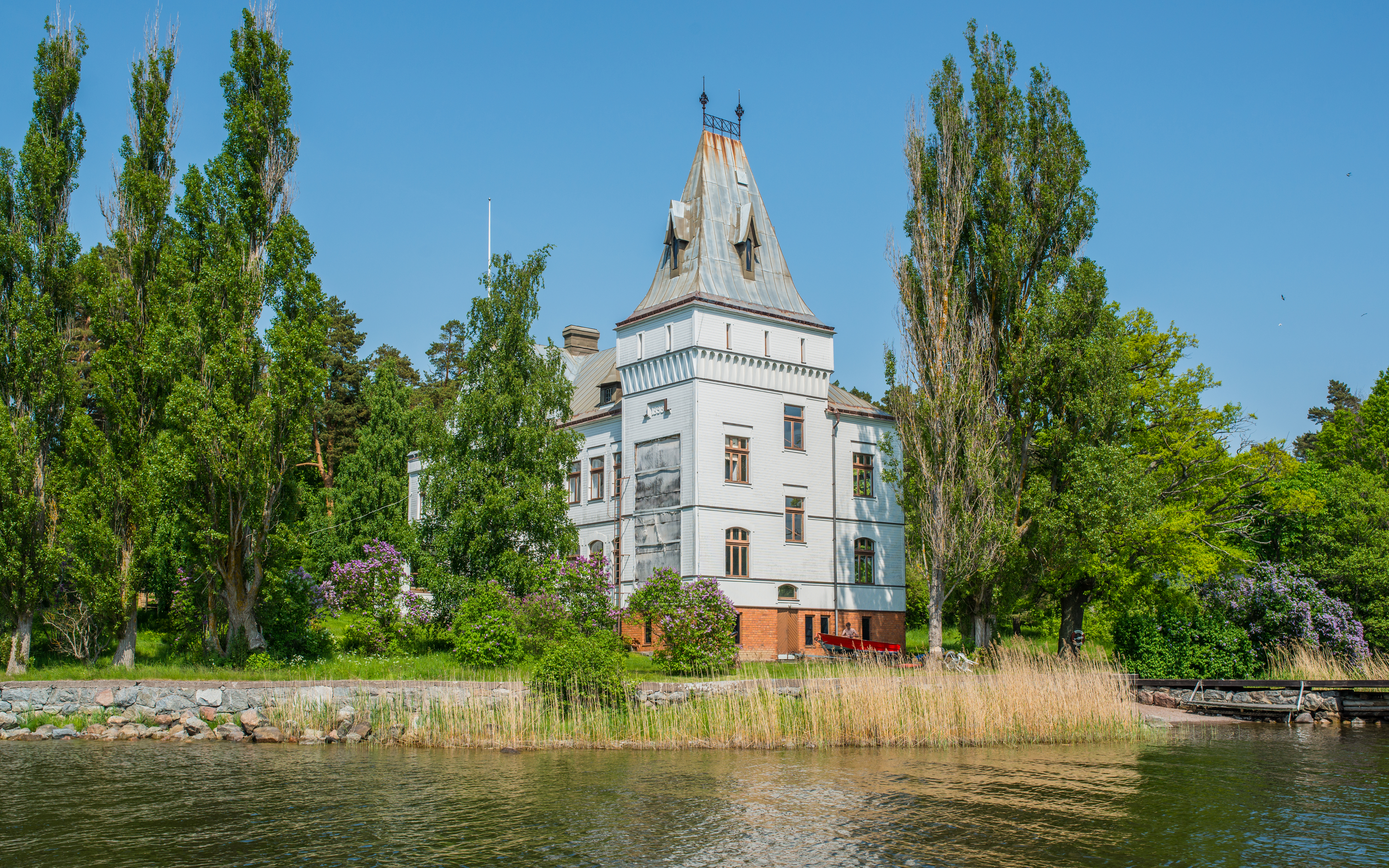 Building, shown on maps as Villa Björkudden, on the Tynningö water front in June 2013.